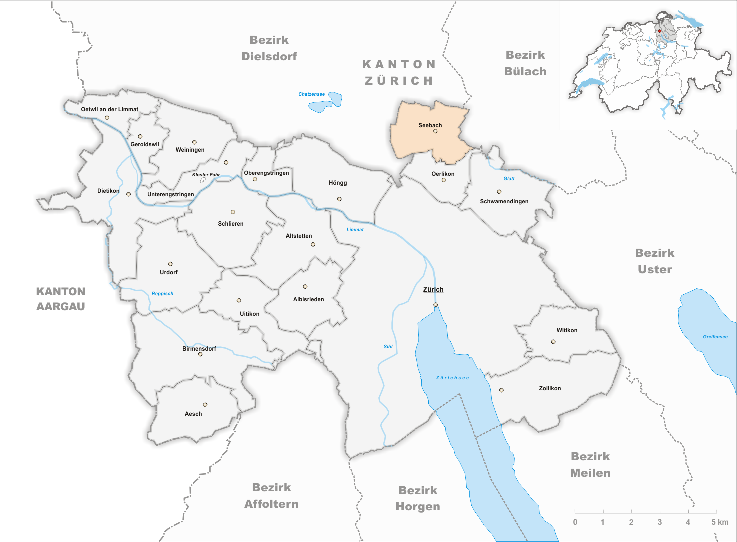 Municipality Seebach